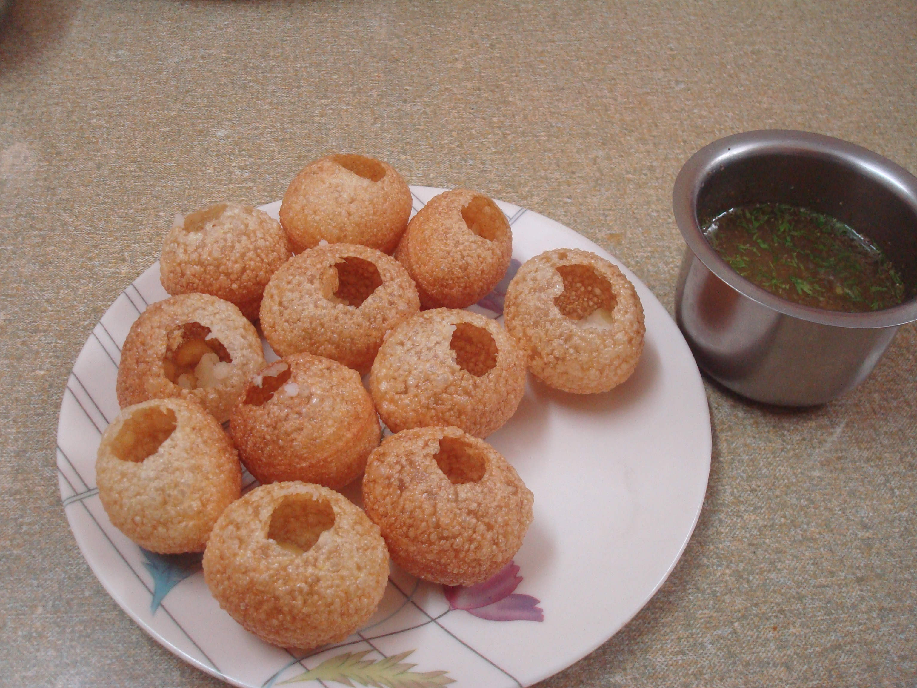 Making of Panipuri, an Indian snack, at home. fried panipuris, stuffed with boiled potatoes, boiled peas, are served with the spicy pani (water) placed in a glass besides.